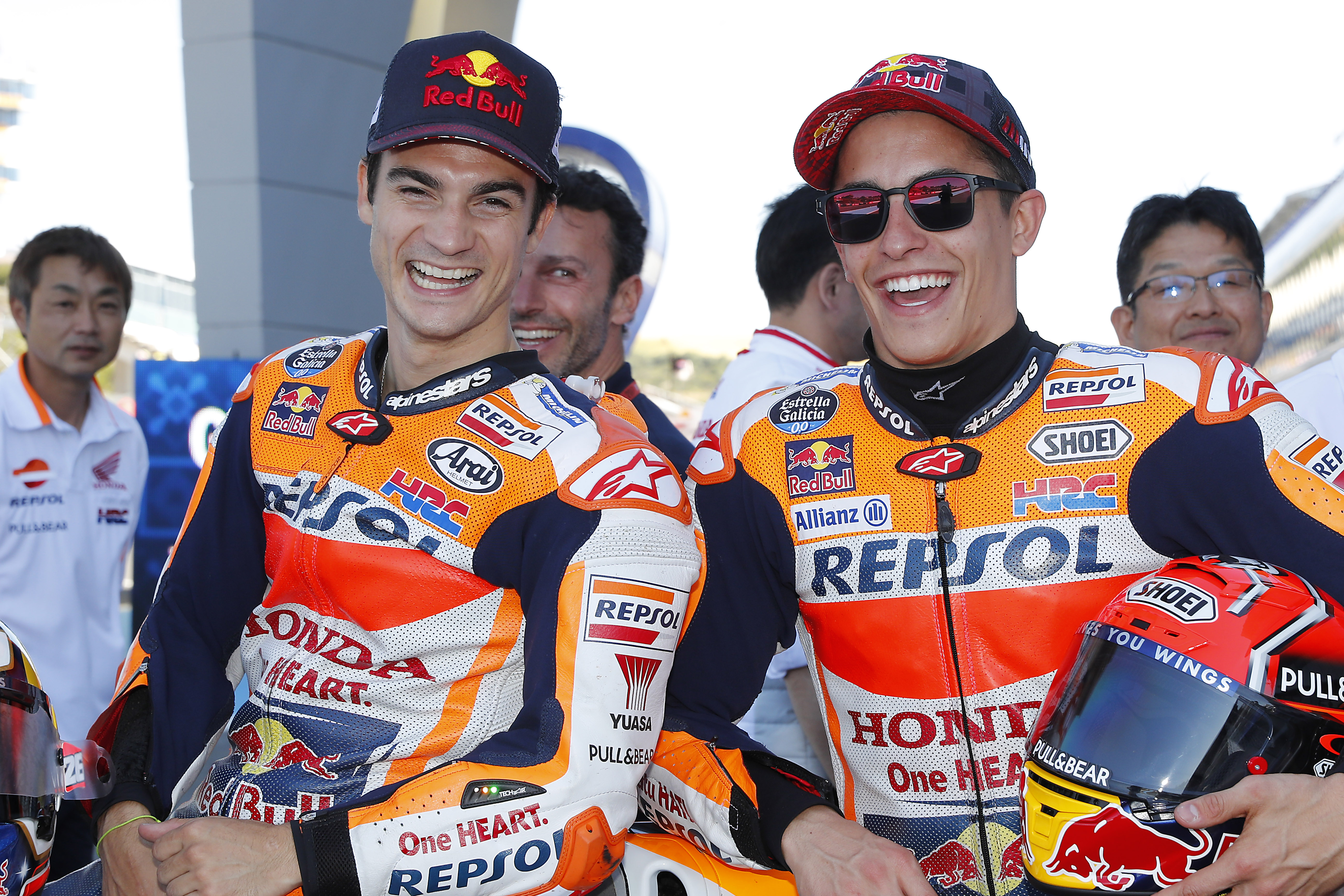 Dani Pedrosa and Marc Márquez, posing for the press after finishing in first and second place at the 2017 Spanish Grand Prix.